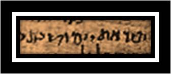 the 4th Commandment on Nash Papyrus "Remember the Sabbath" row 9, words 5-8. in Hebrew script: "zahor et yom ha'shabat". similar to Exodus 20:7 Egypt, 2nd century CE